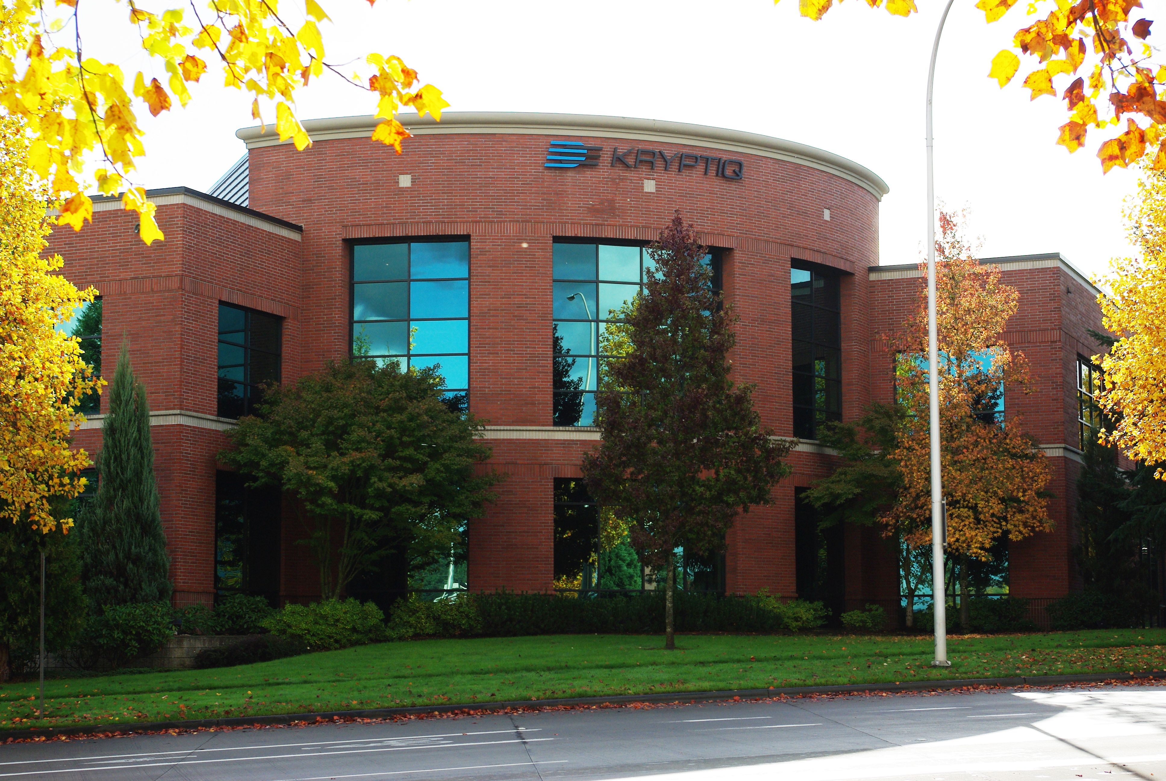 Kryptiq's then-new headquarters in the Amberglen business park in Hillsboro, Oregon, in November 2010. Renamed Enli Health Intelligence in 2015, the company moved to a different location in 2016.